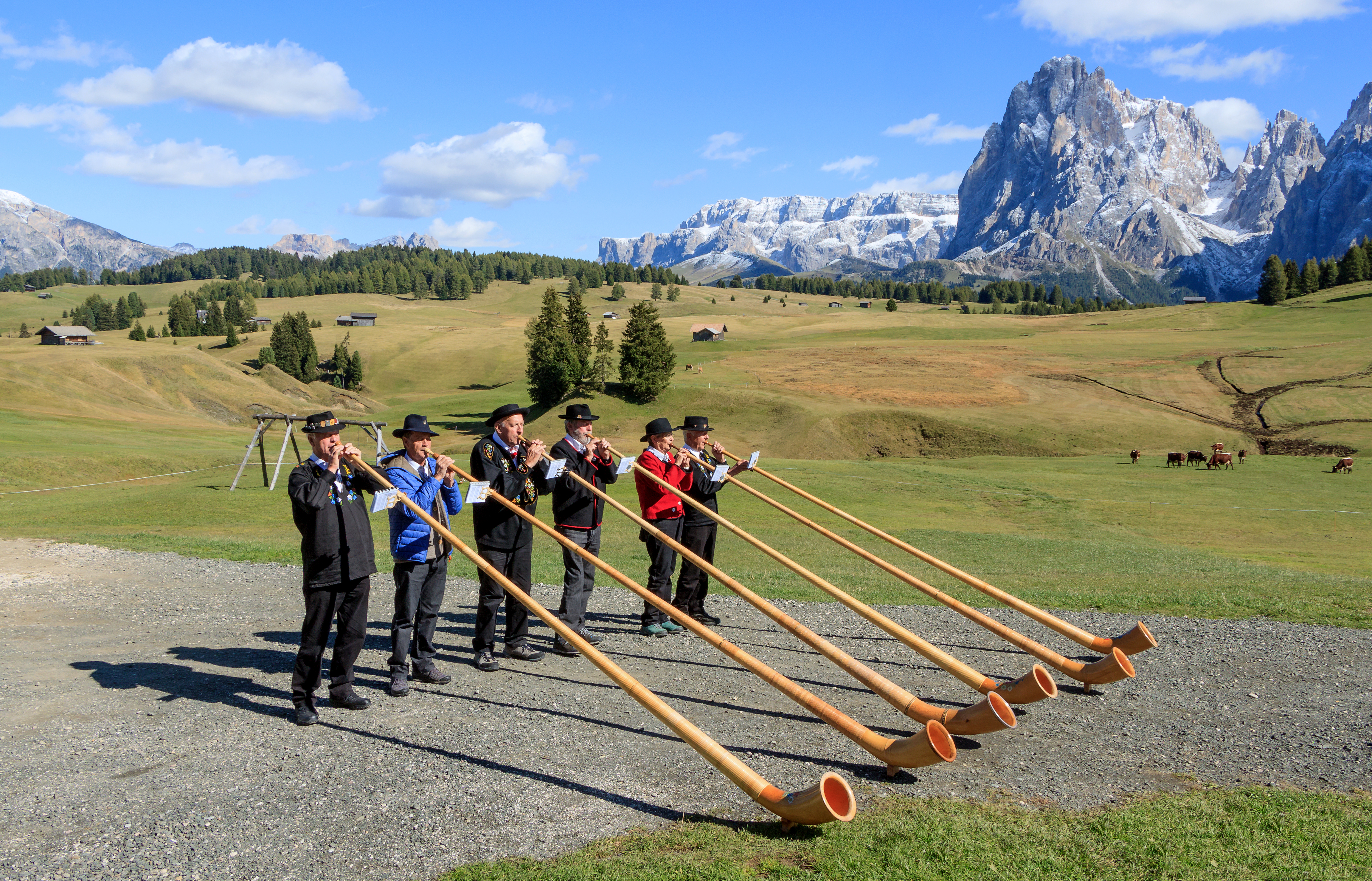 Alphorn blowers at the Sanon hut, Seiser Alm, South Tyrol, Italy.